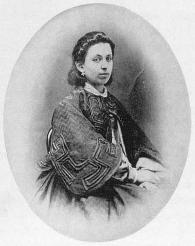 Nobility from Georgia. Illustration from Letopis' Gruzii, edited by B. Esadze, 1913.